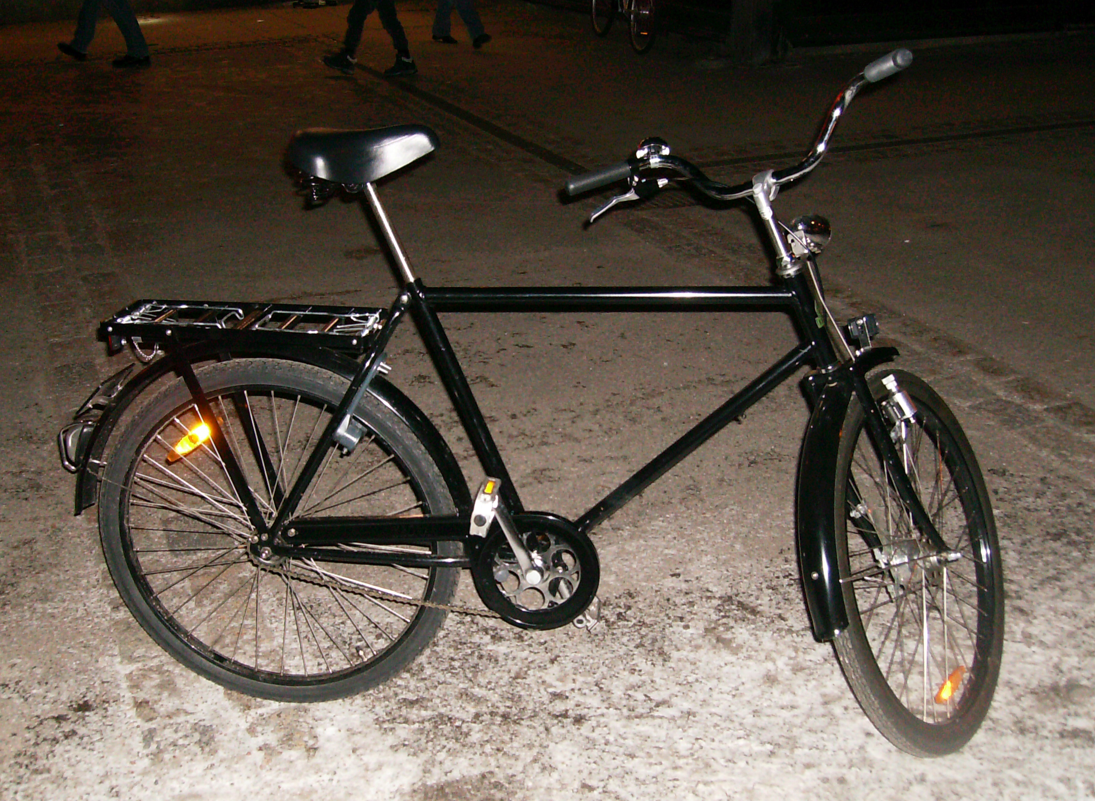 Black Kronan bicycle, 2007 year's model